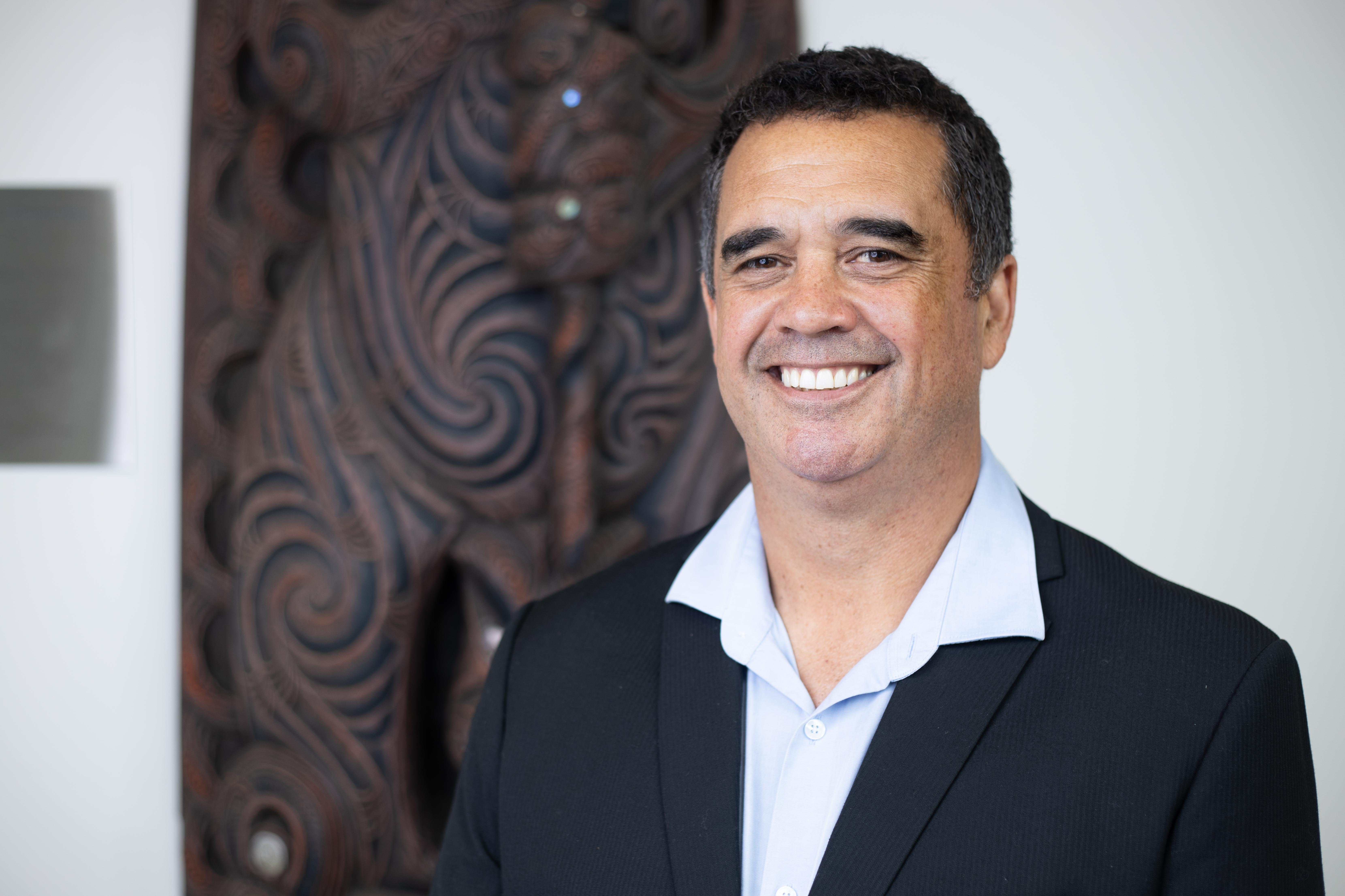 Professor Rangi Matamua was announced as the winner of the 2019 Prime Minister Science Communication Prize on 30 July for his mahi in raising awareness about Matariki.